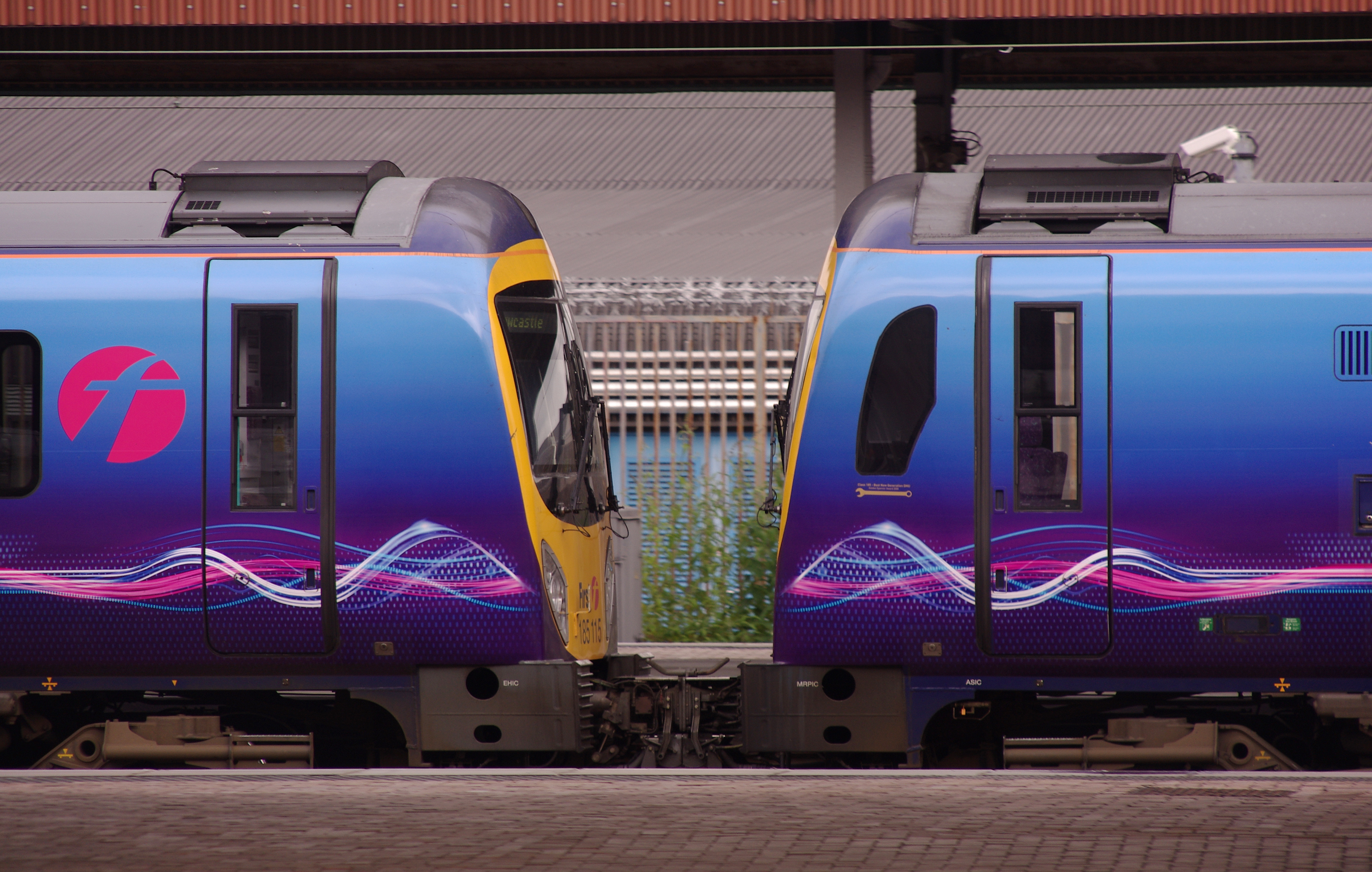 First TransPennine Express Desiro DMUs 185115 and 185113 arrive at York with a service to Newcastle.